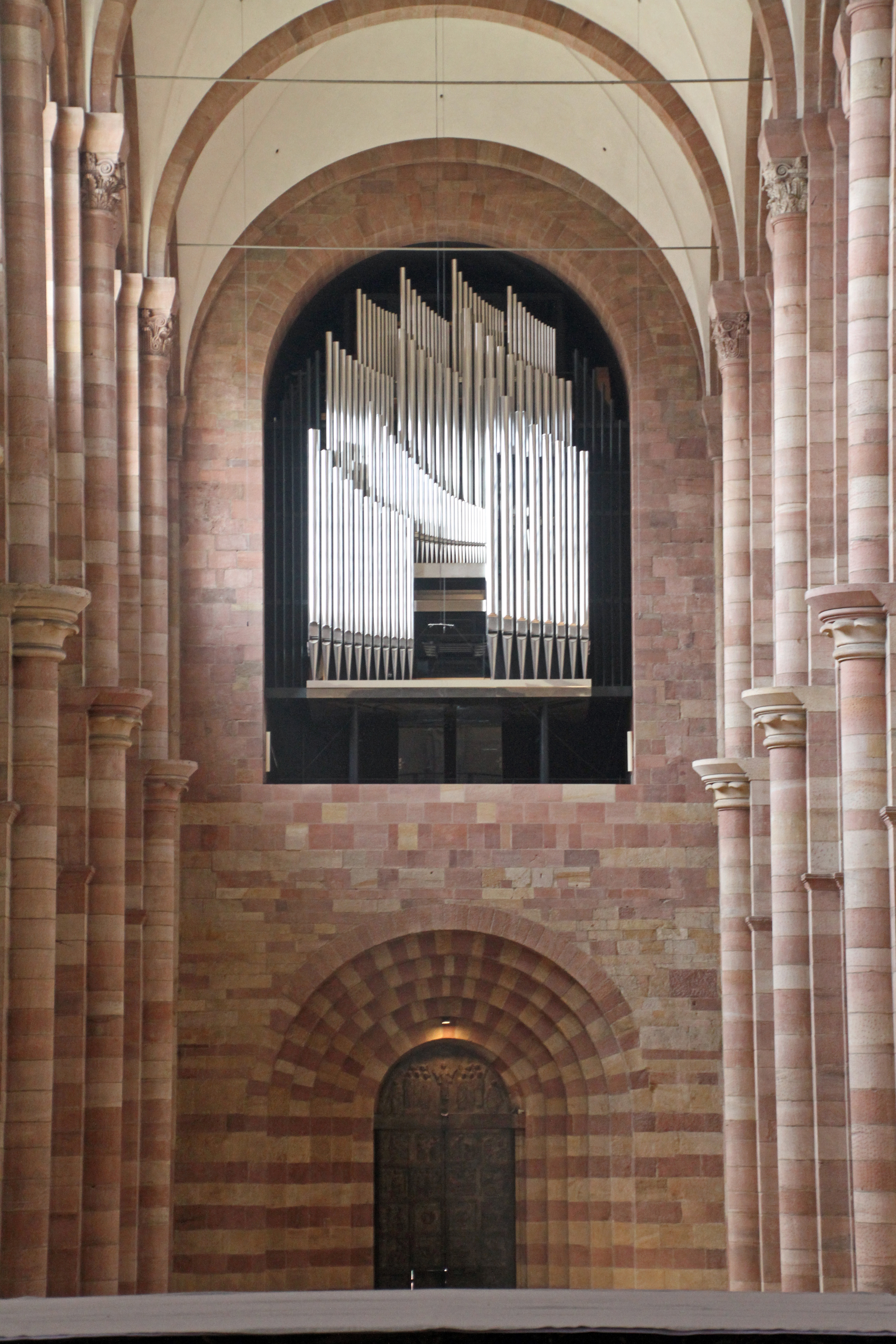 Speyer cathedral